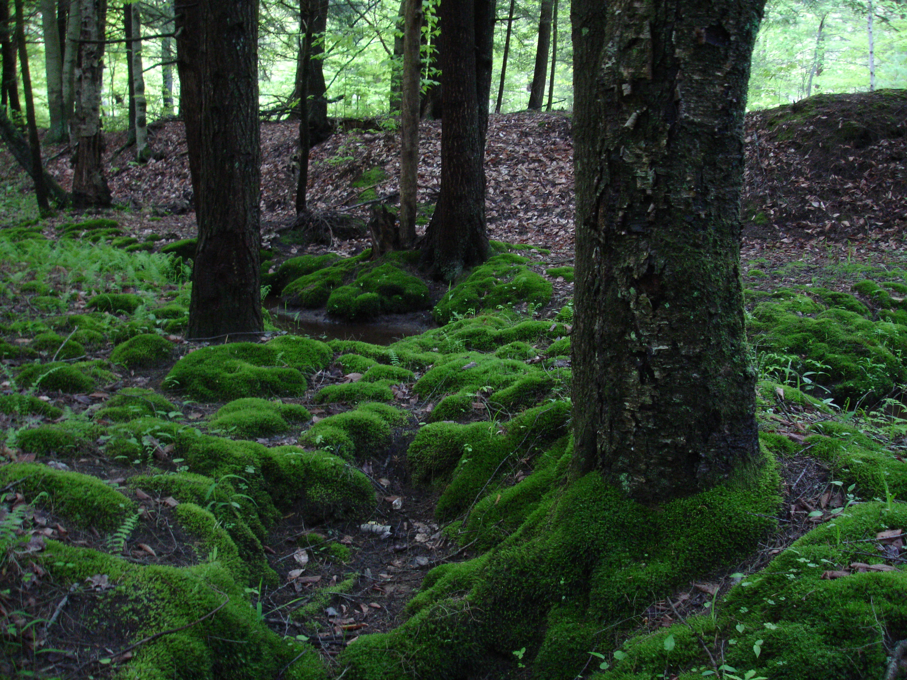 Tionesta, Allegheny National Forest.